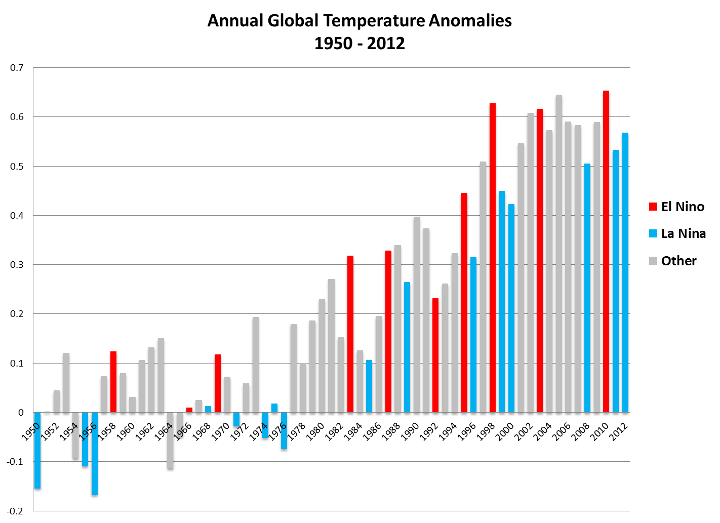 NOAA Global Annual Temperature Anomalies 1950–2012 from State of the Climate : Global Analysis : Annual 2012